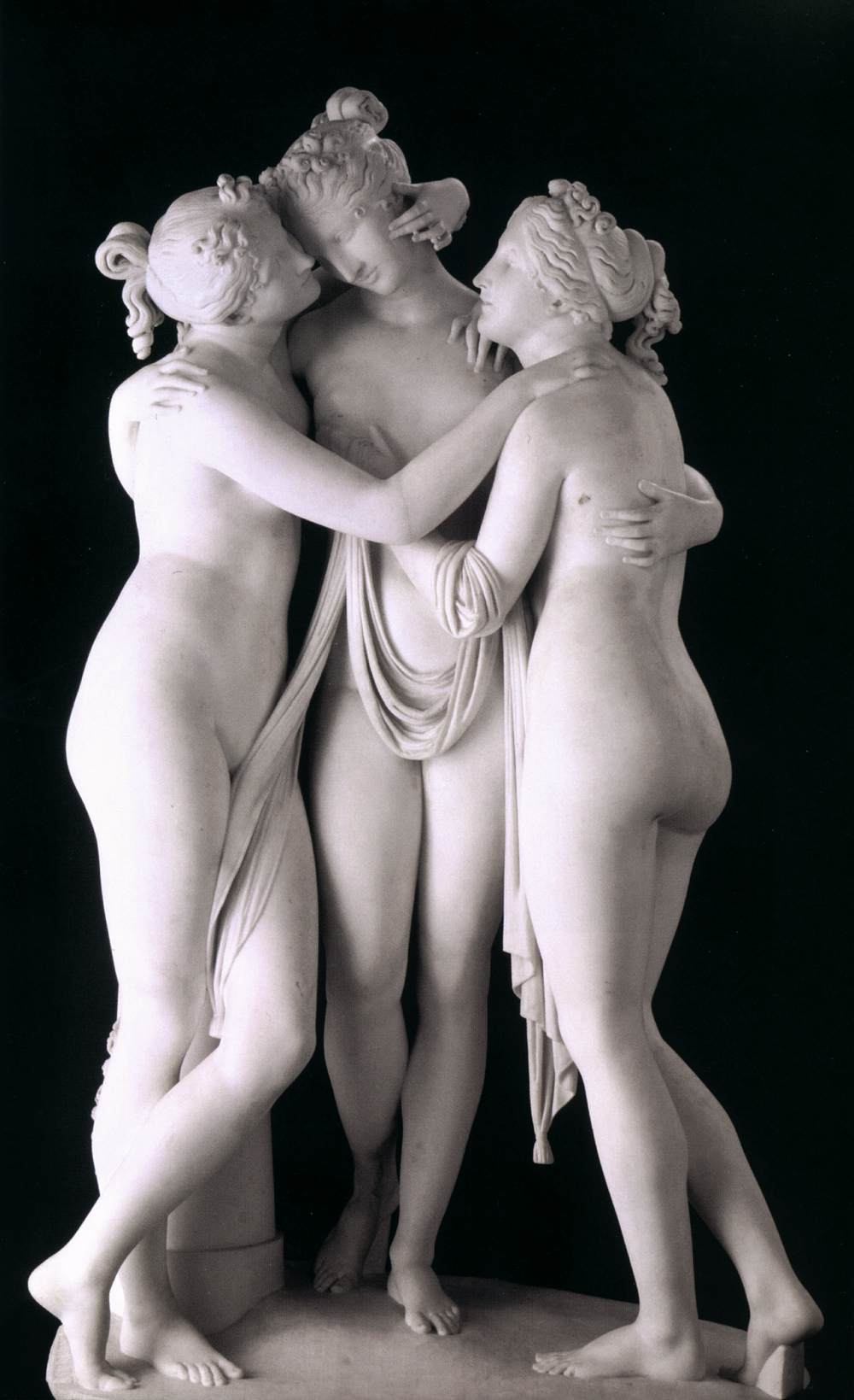 Tre Grazie, Canova